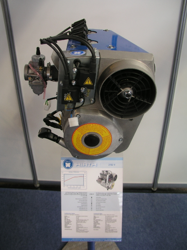 Two cylinder two stroke engine Hirth 2702V